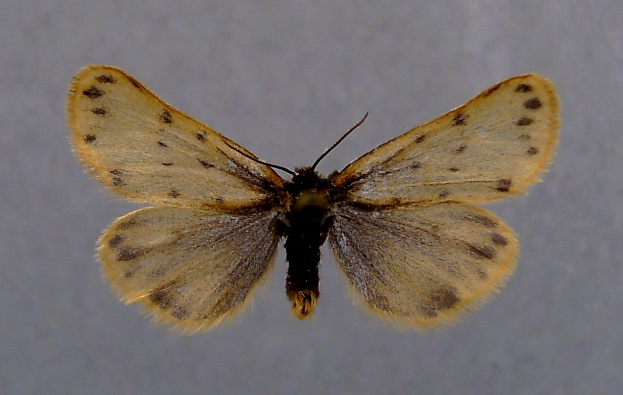 Setina roscida, Kals am Großglockner Austria